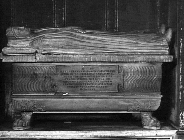 Saint Monica's burial, in Sant'Agostino church at Rome, by Isaia da Pisa.